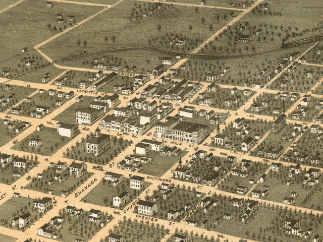 Bird's eye view of the city of Jackson, Madison County, Tennessee 1870. Drawn by A. Ruger. CREATED/PUBLISHED Chicago, Chicago Lithographing Co. [1870] NOTES Perspective map not drawn to scale. "Looking north west." Library of Congress. Ruger map collection ; no. 176.